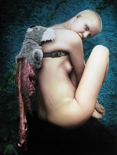 Photographs by Antonín Tesař Personality rights warningAlthough this work is freely licensed or in the public domain, the person(s) shown may have rights that legally restrict certain re-uses unless those depicted consent to such uses. In these cases, a model release or other evidence of consent could protect you from infringement claims.